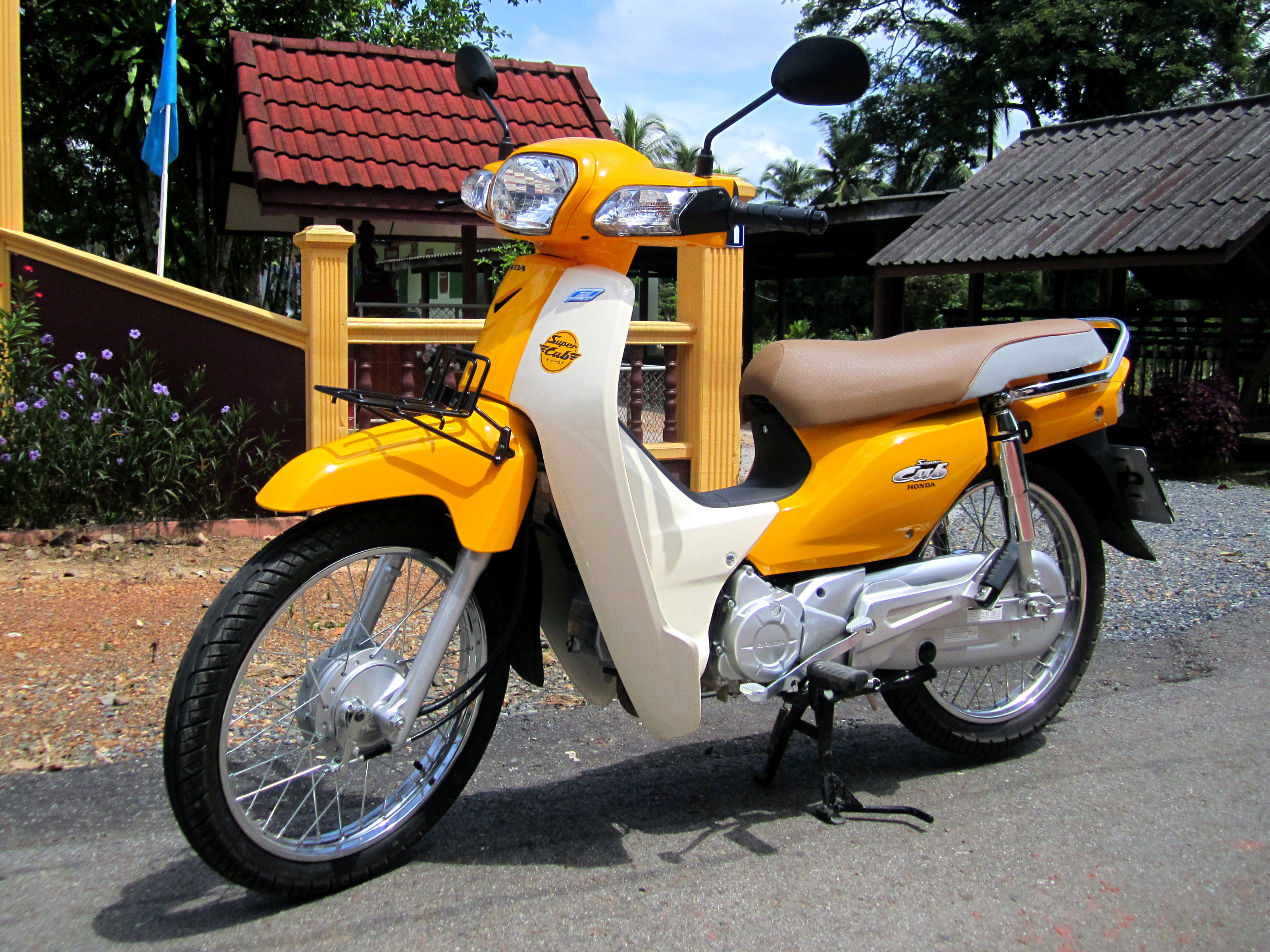 Honda Dream 110i Super Cub (2014 ) lightweight motorcycle 109.1cc single cylinder four-stroke. Made in Thailand. Photographed in Trat Province, Thailand.